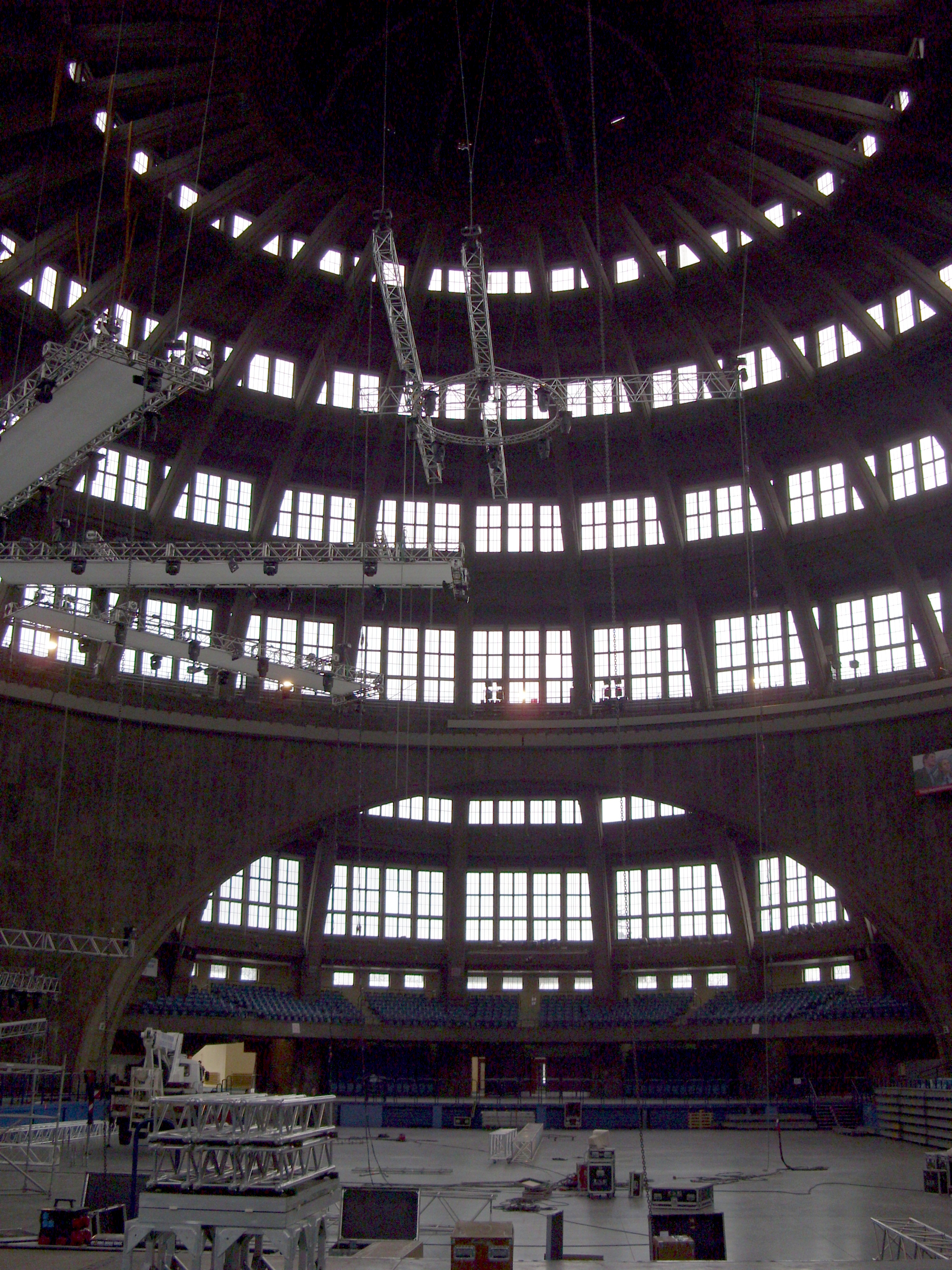 Inside the Centennial Hall in Wrocław, Poland.